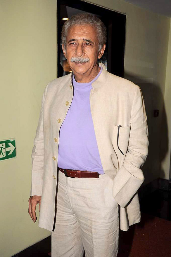 Naseeruddin Shah Audio release of 'Maximum'